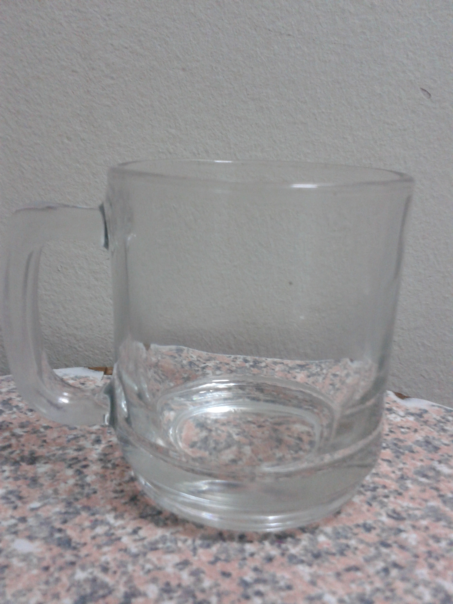 Glass cup